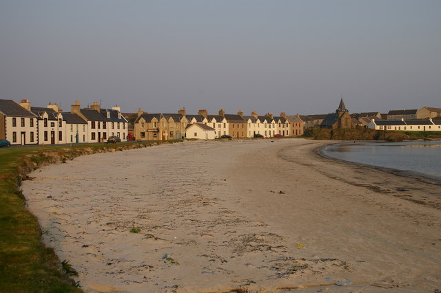 Port Ellen at Sunset A beautiful May evening on the beachfront at Port Ellen